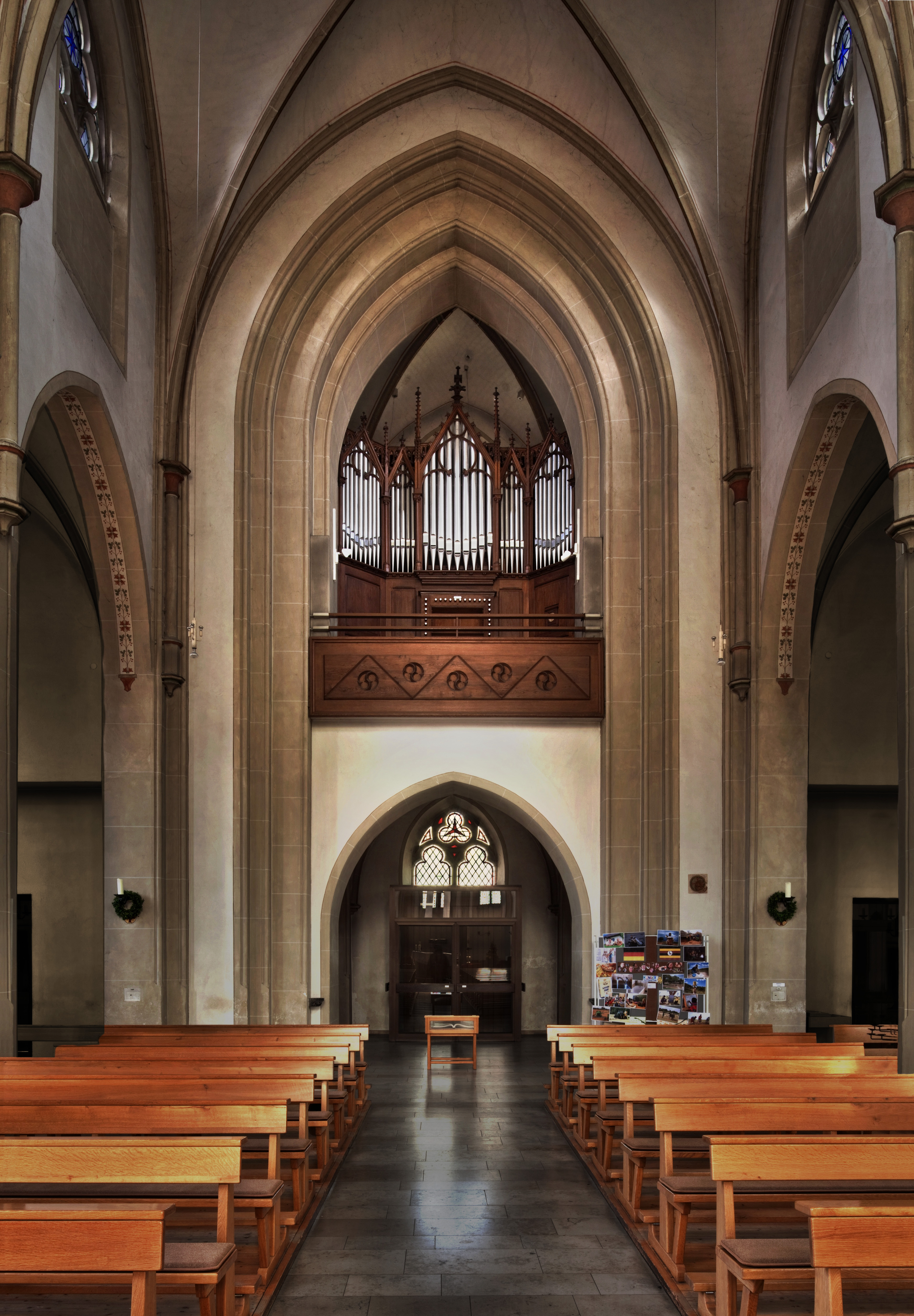 Mesum, Fleiter organ in St. John This is a photograph of an architectural monument.